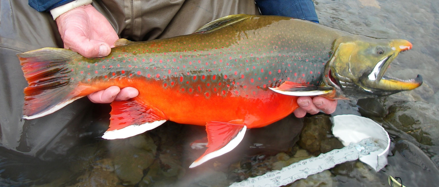 a man holding a mature male Dolly Varden trout caught in southwestern Alaska